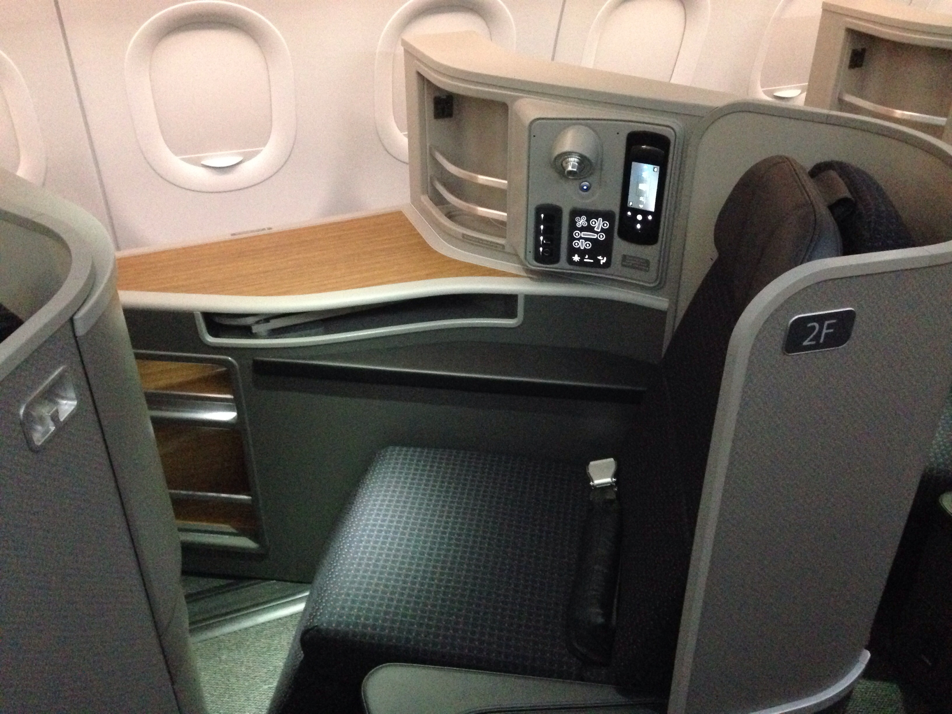 Look nearly identical to the business class seats on American's 777-300ER.